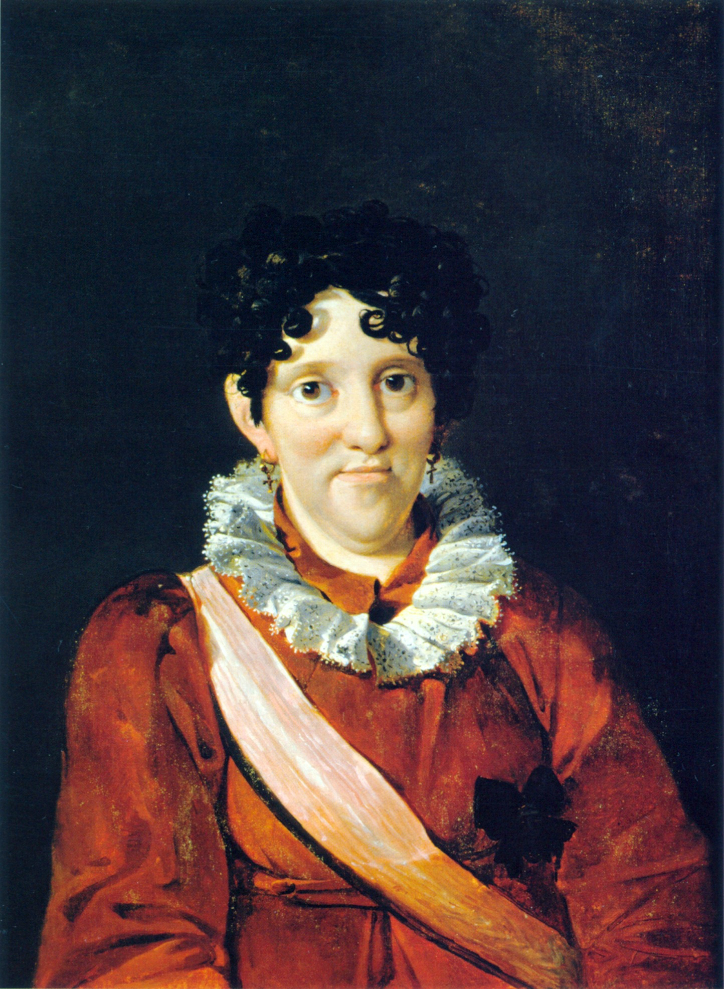 Dona Carlota Joaquina, wife of King Dom João VI of Portugal, Brazil and Algarves